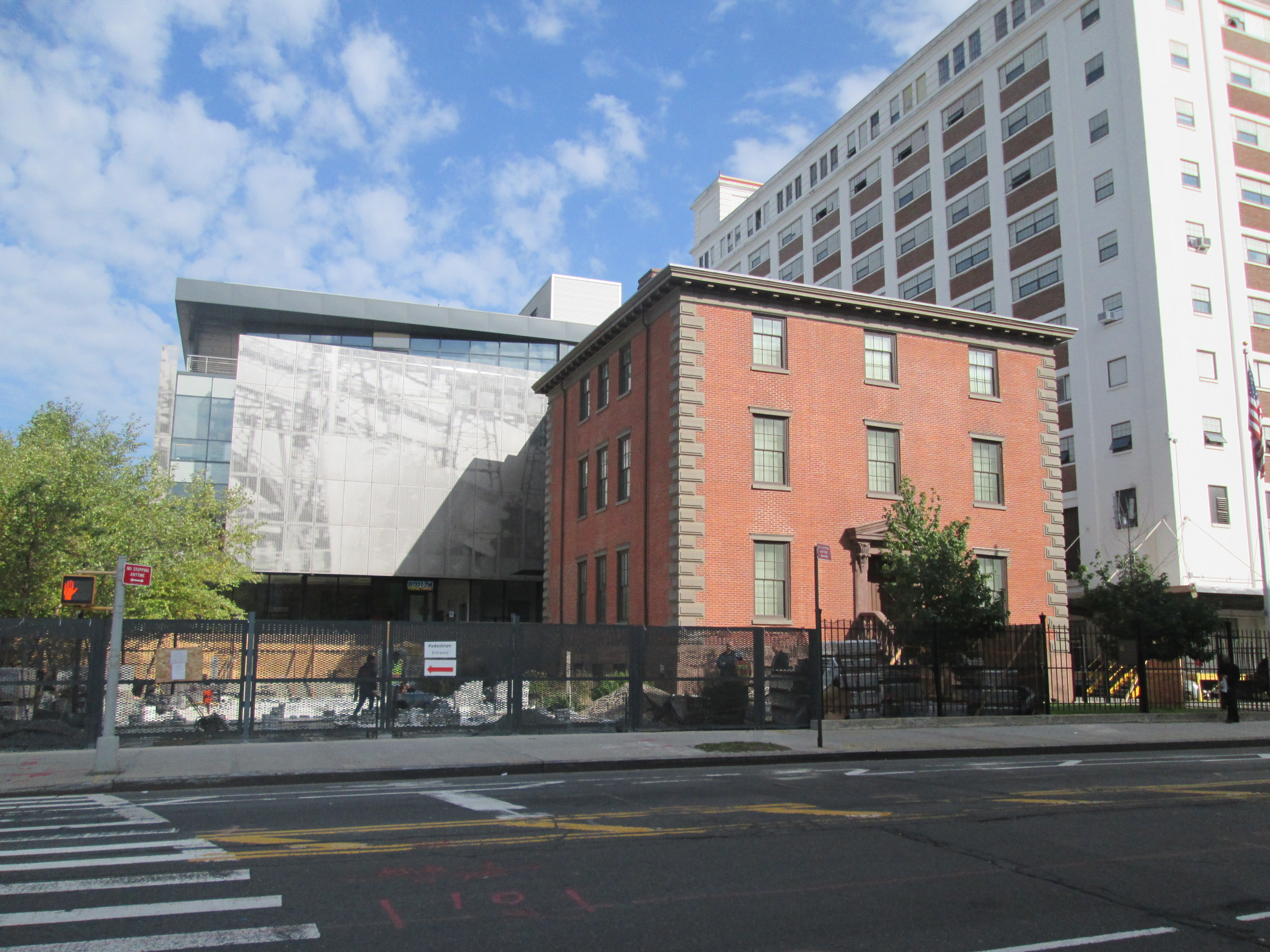 Views of the Brooklyn Navy Yard, October 23, 2018 - Building 92 and Supply Storehouse